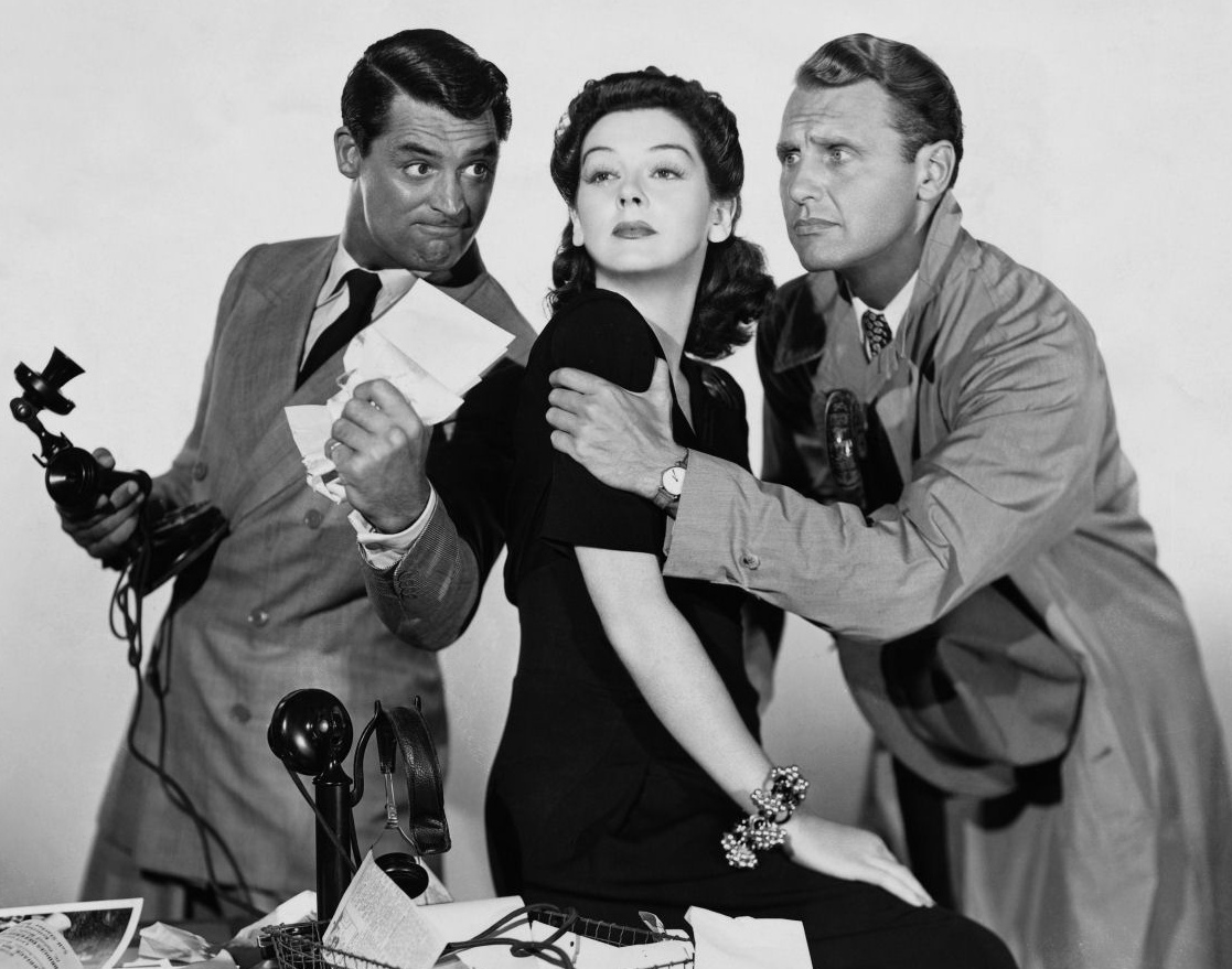 Promotional photo from the 1940 film His Girl Friday. Rosalind Russell is wearing a costume designed by costume designer Robert Kalloch. Due to a failure to renew the copyright registration, the film entered the public domain in 1968. See [1] and [2].